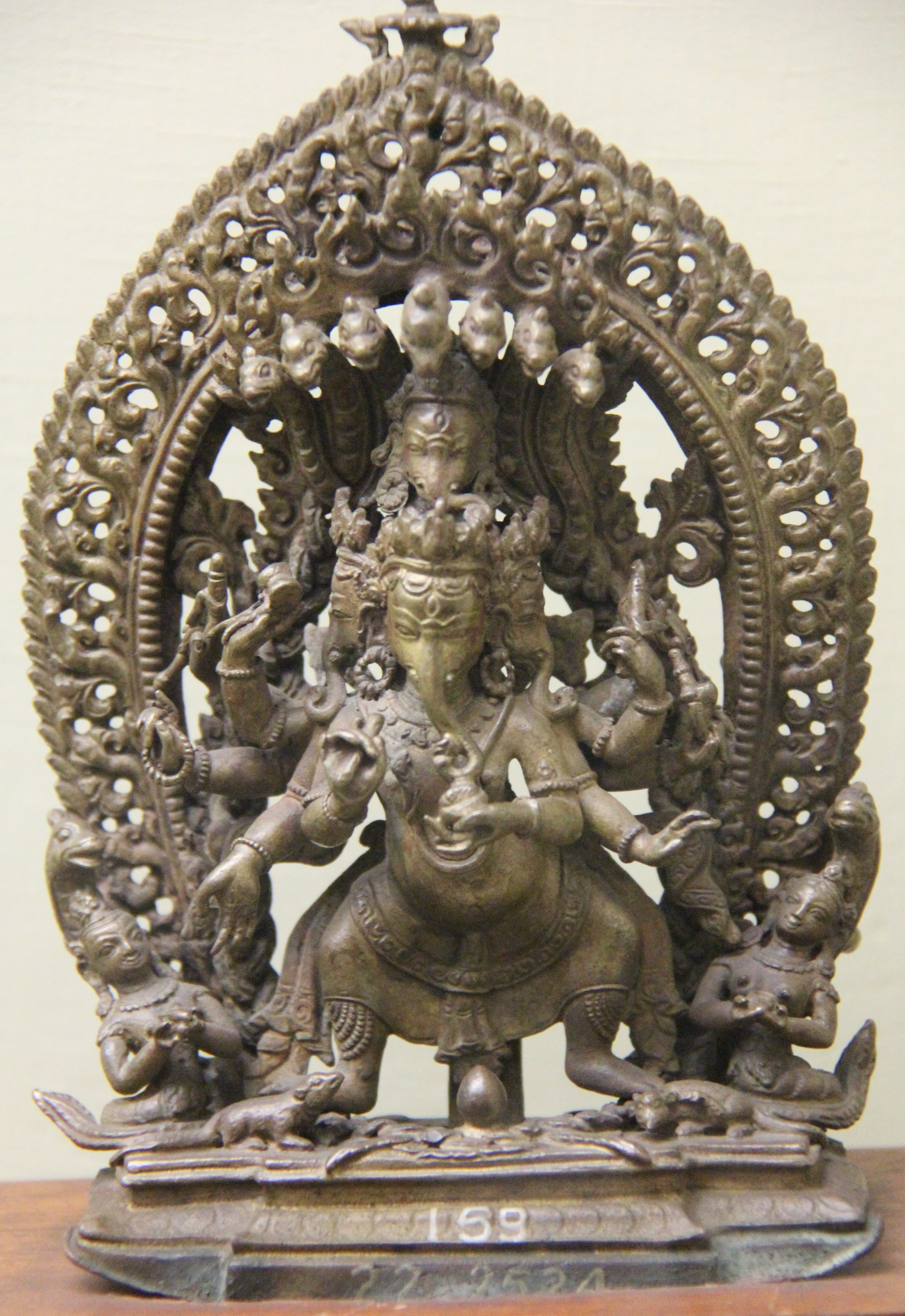 Heramba Ganapati idol on display at The Prince of Wales Museum, Mumbai. Idol donated by Ratan Tata collection and dates back to 19th century; originating from Nepal.